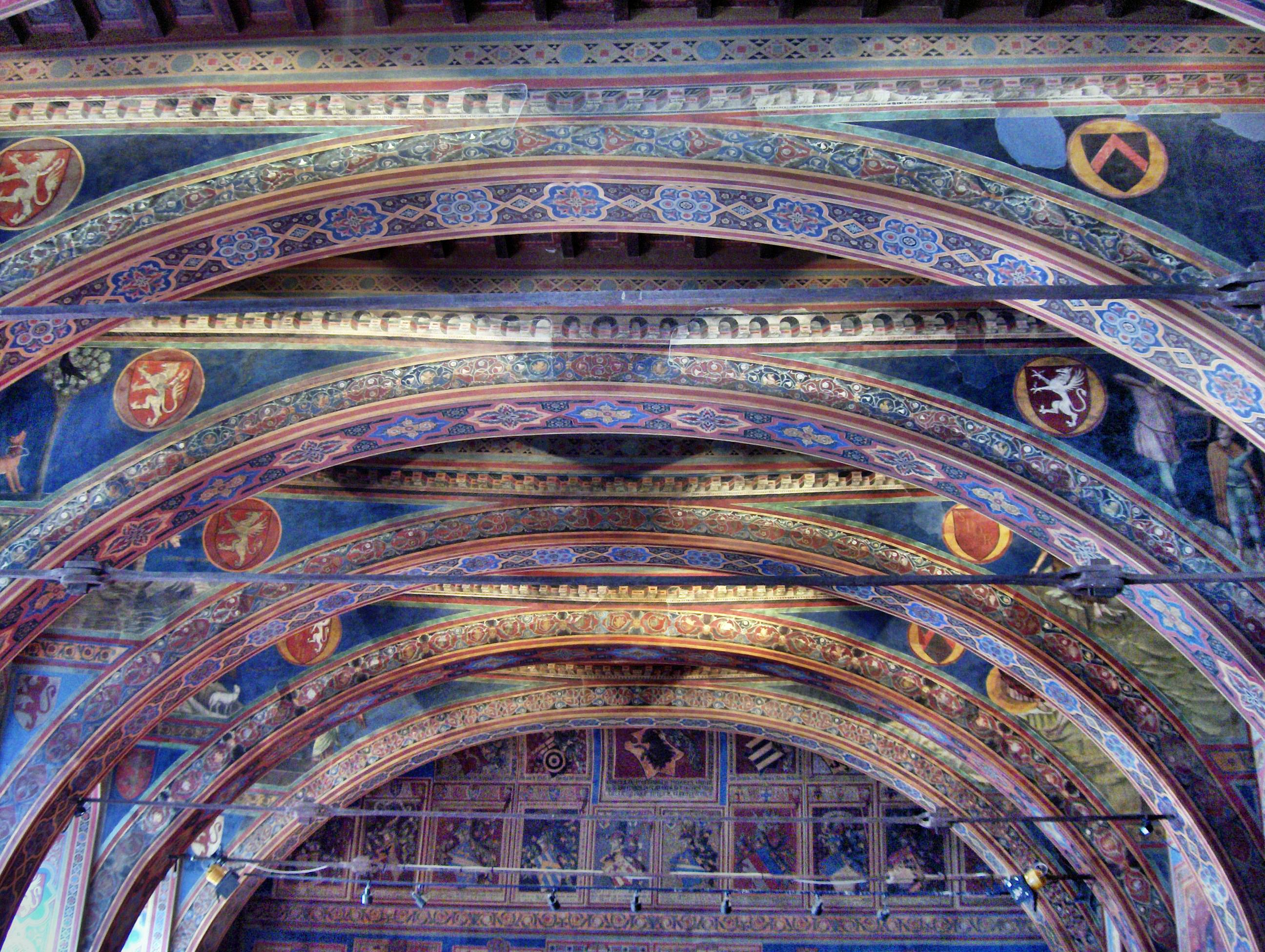 Sala dei Notari, paintings by Pietro Cavallini (late 13th century), Palazzo dei Priori, Perugia, Italy